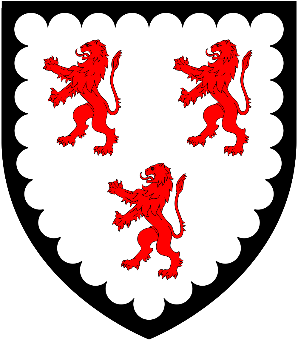 Arms of Kirkham of Blagdon, Devon: Argent, three lions rampant gules a bordure engrailed sable (Source: Pole, Sir William (d.1635), Collections Towards a Description of the County of Devon, Sir John-William de la Pole (ed.), London, 1791, p.490)